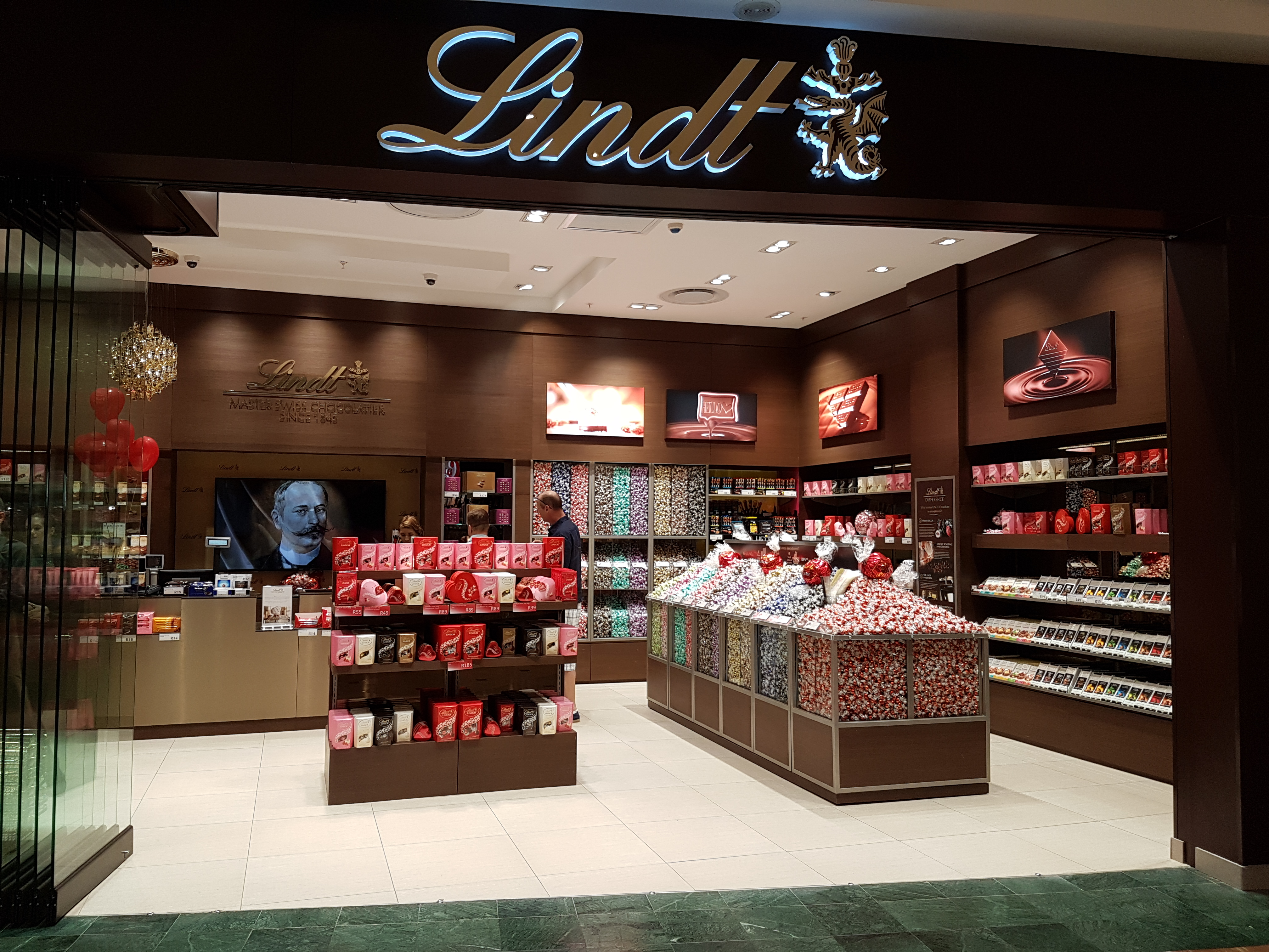 Lindt Store in Canal Walk mall, Cape Town.